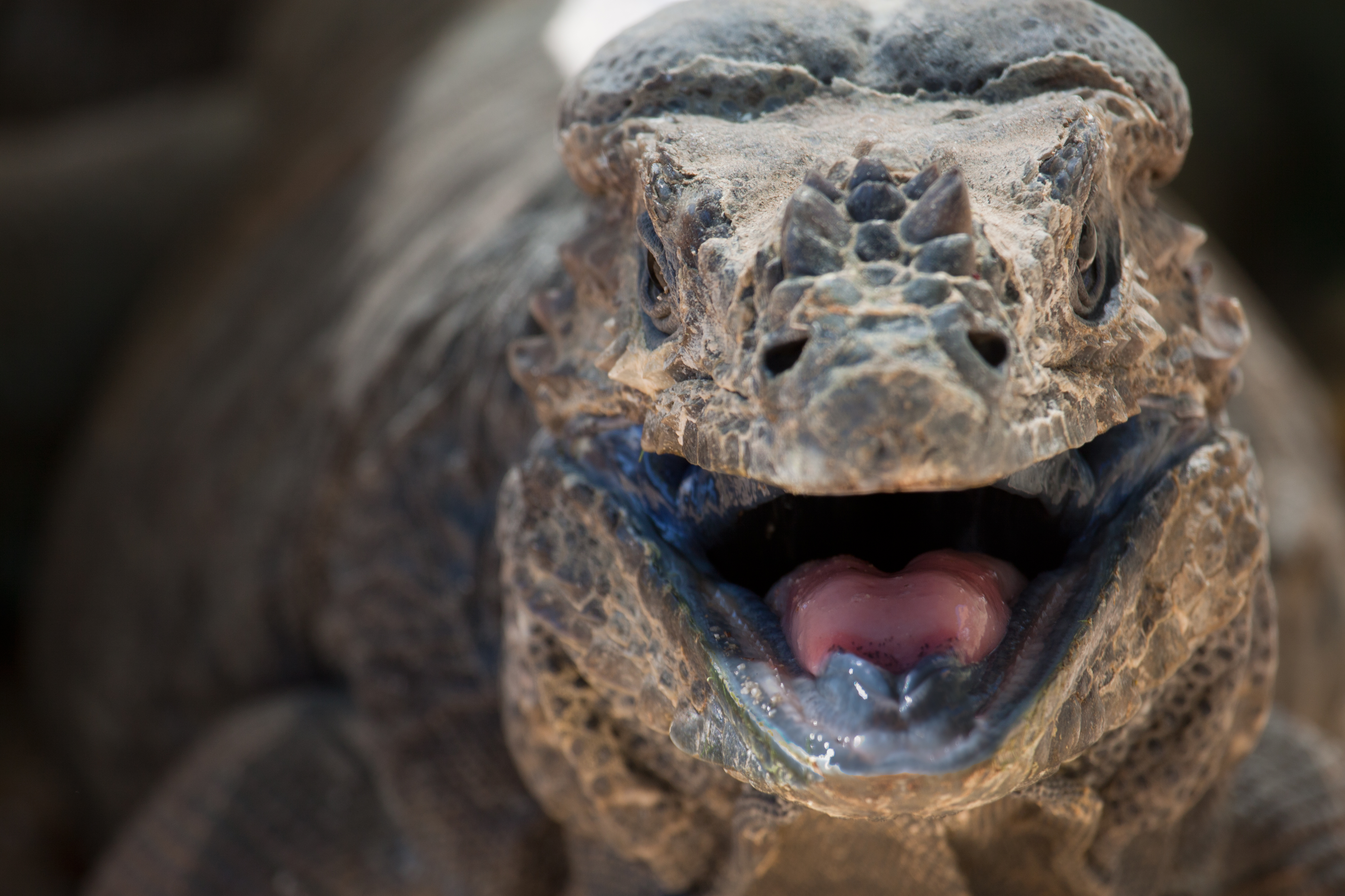 Rhinoceros Iguana [Cyclura cornuta]- Photo Taken at the Lisbon Zoo